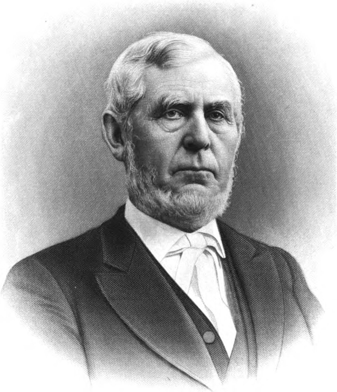 Ohio politician Columbus Delano